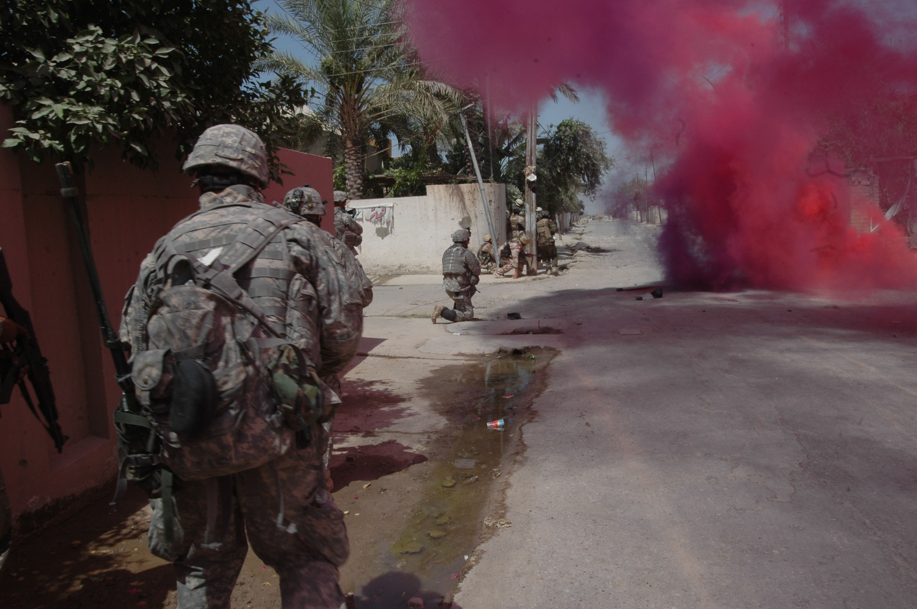 Soldiers from the 5th Iraqi Army Division, run through a smoke screen in Baqubah, Iraq, June 22, as Soldiers from the 3rd Stryker Brigade Combat Team, 2nd Infantry Division, from Fort Lewis, Washington, follow. The action was part of Operation Arrowhead Ripper, a joint effort between U.S. and Iraqi security forces to defeat al-Qaida terrorists and secure the city.